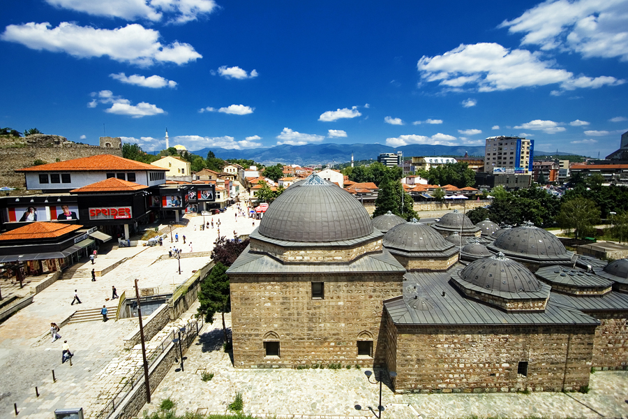 Daut Pasha's Amam, Skopje, Republic of Macedonia.